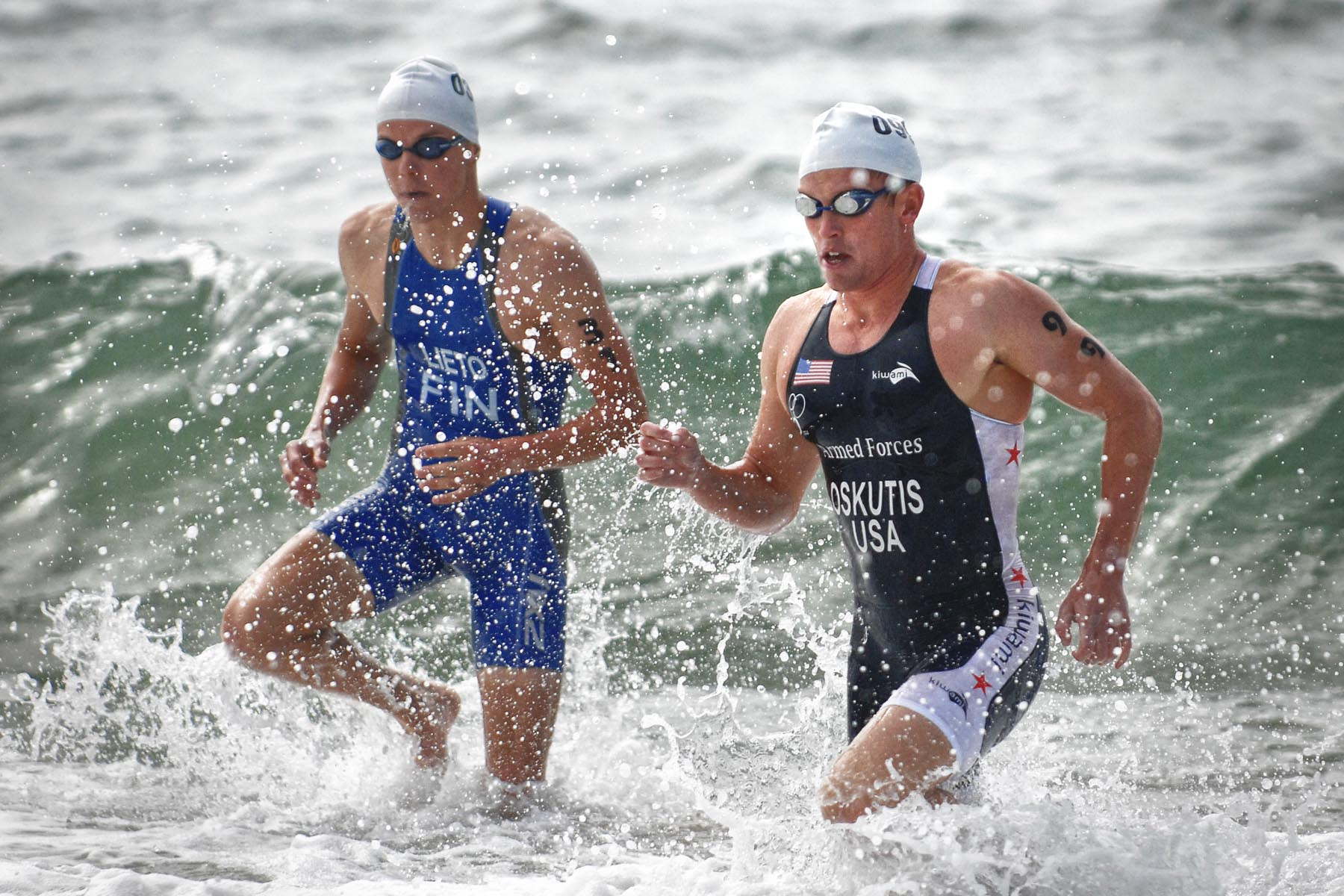 U.S. Navy Lt. j.g. Derek Oskutis, competitor number 99, and Panu Lieto from Finland finish the swimming portion of the triathlon event at the 5th International Military Sports Council World Games in Rio de Janeiro, Brazil, July 24, 2011.